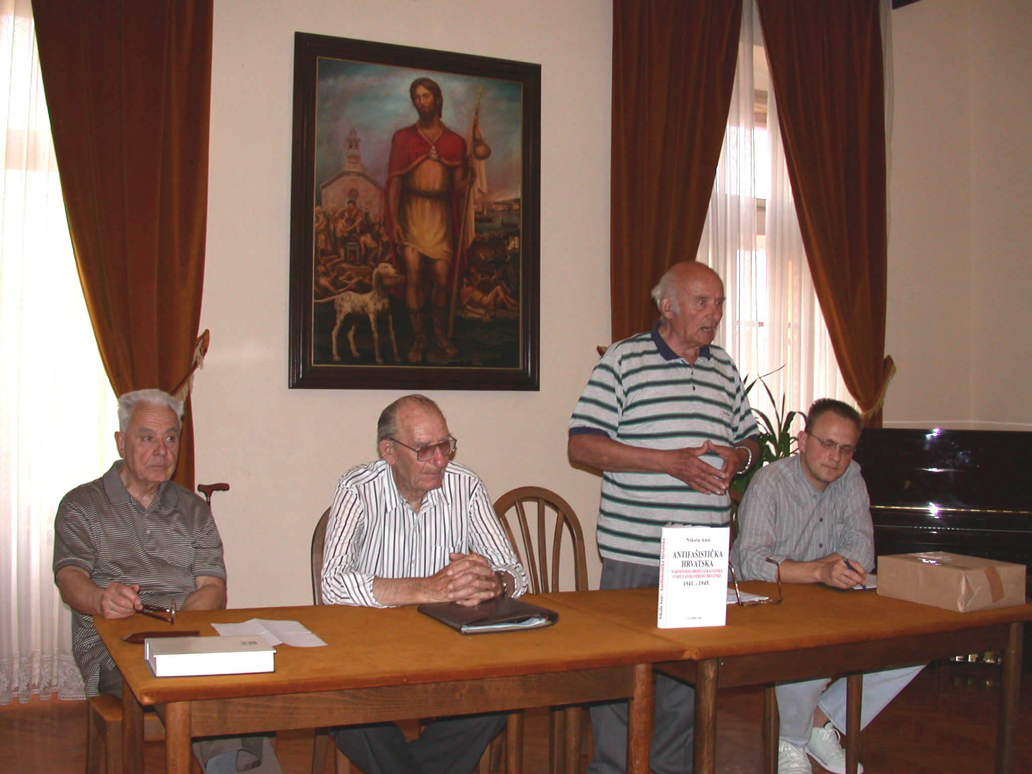 At Stari Grad (island of Hvar) at the promotion of the book "Antifascist Croatia", 17. 6. 2005.